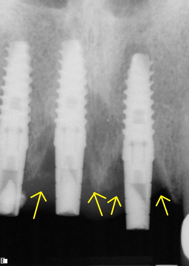 Periimplantitis